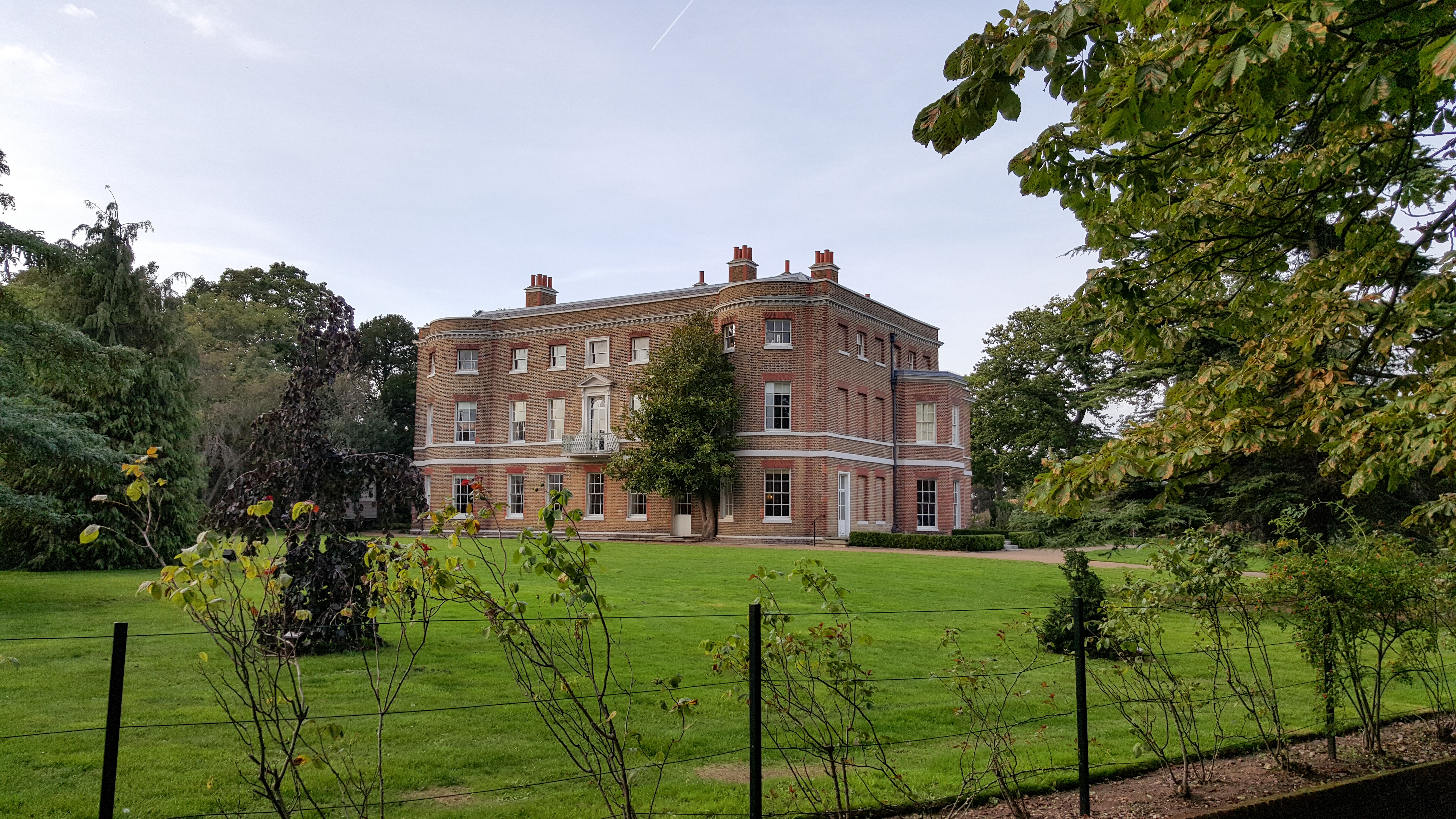 Valentines Mansion rear view